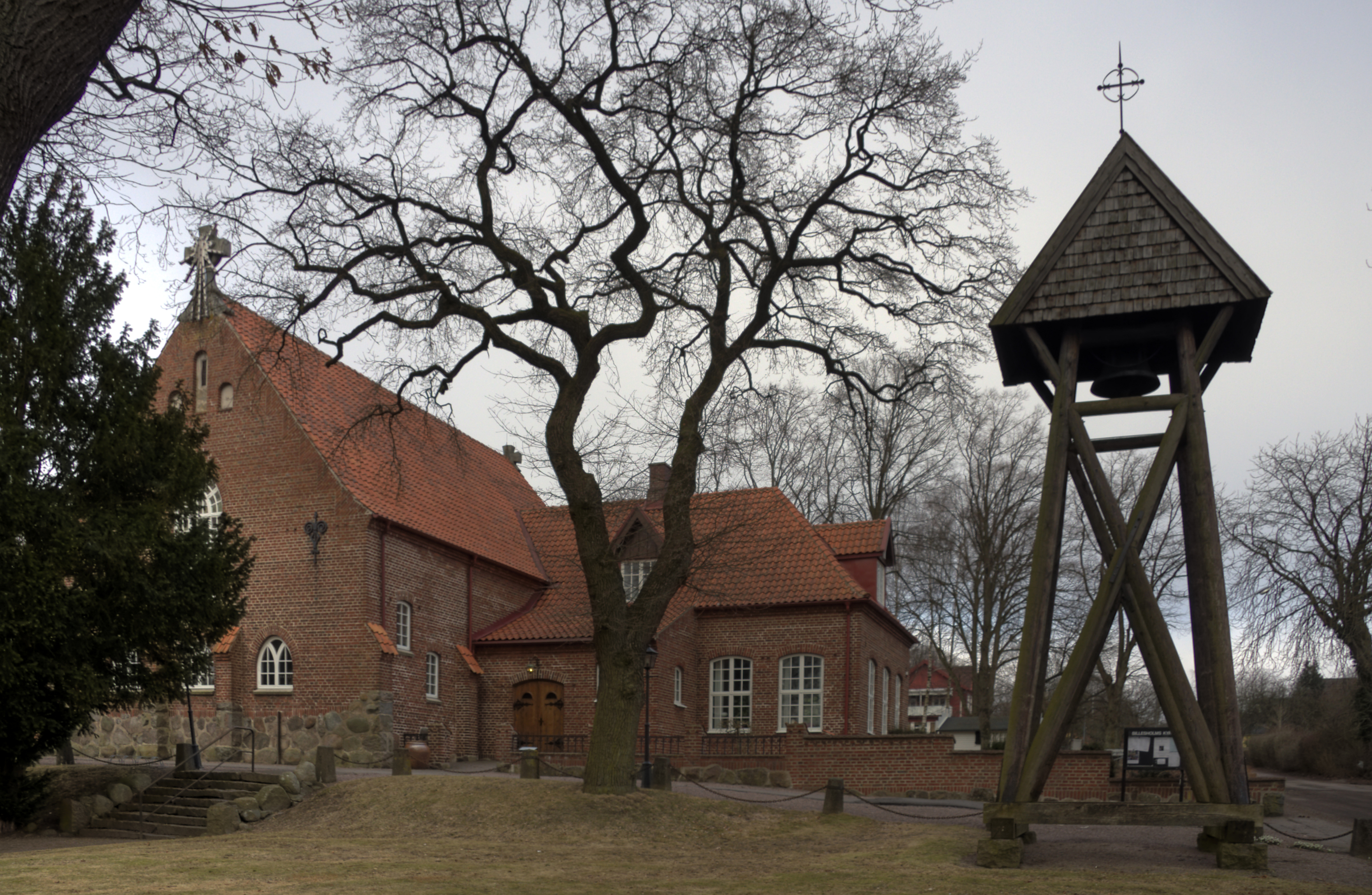 Billesholms kyrka, church building in Bjuv Parish and Billesholm village in Scania, Sweden.